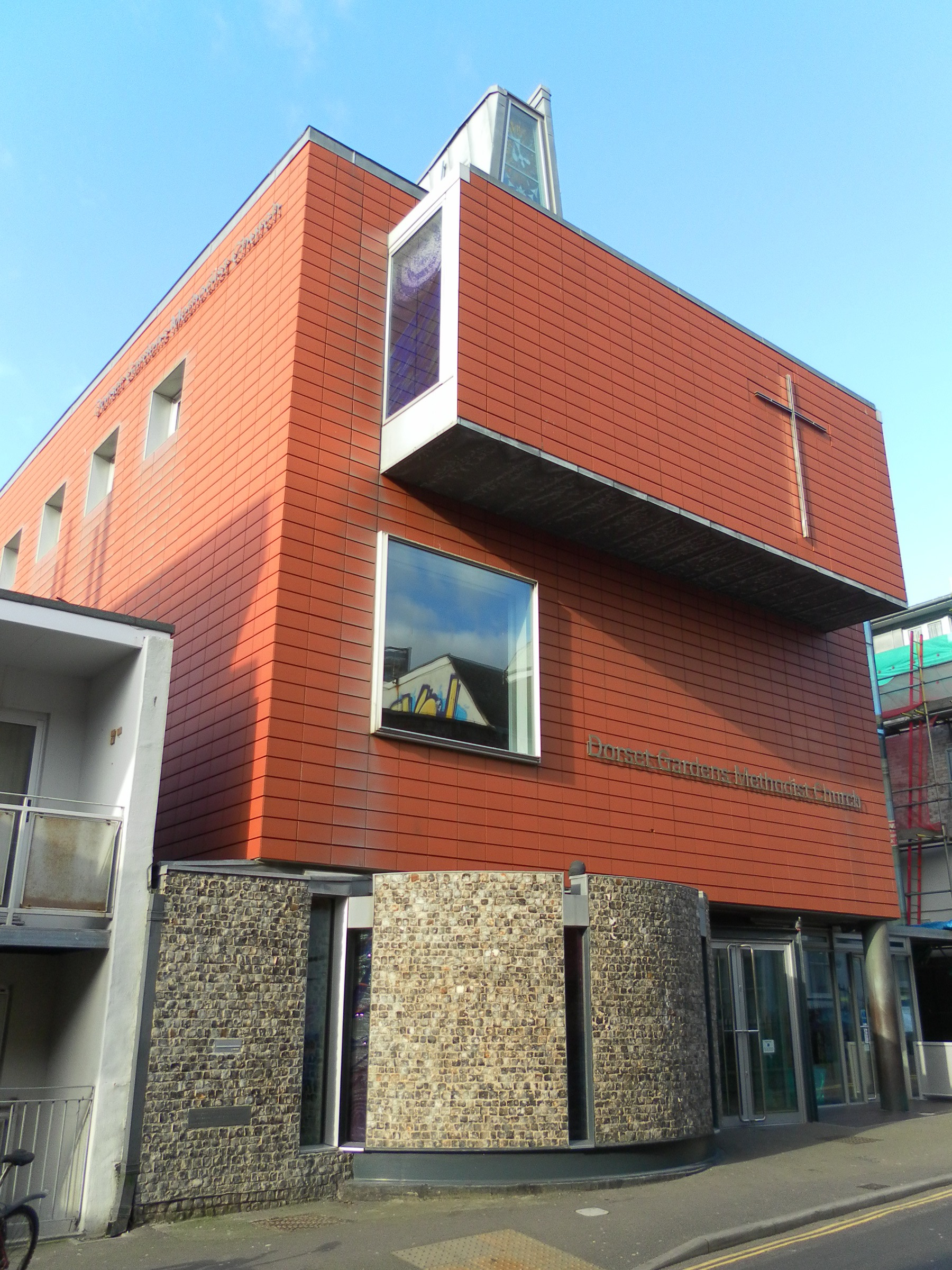 Dorset Gardens Methodist Church, Dorset Gardens, Kemptown, Brighton, City of Brighton and Hove, England. Built in 2003 to replace a 19th-century church on the same site.